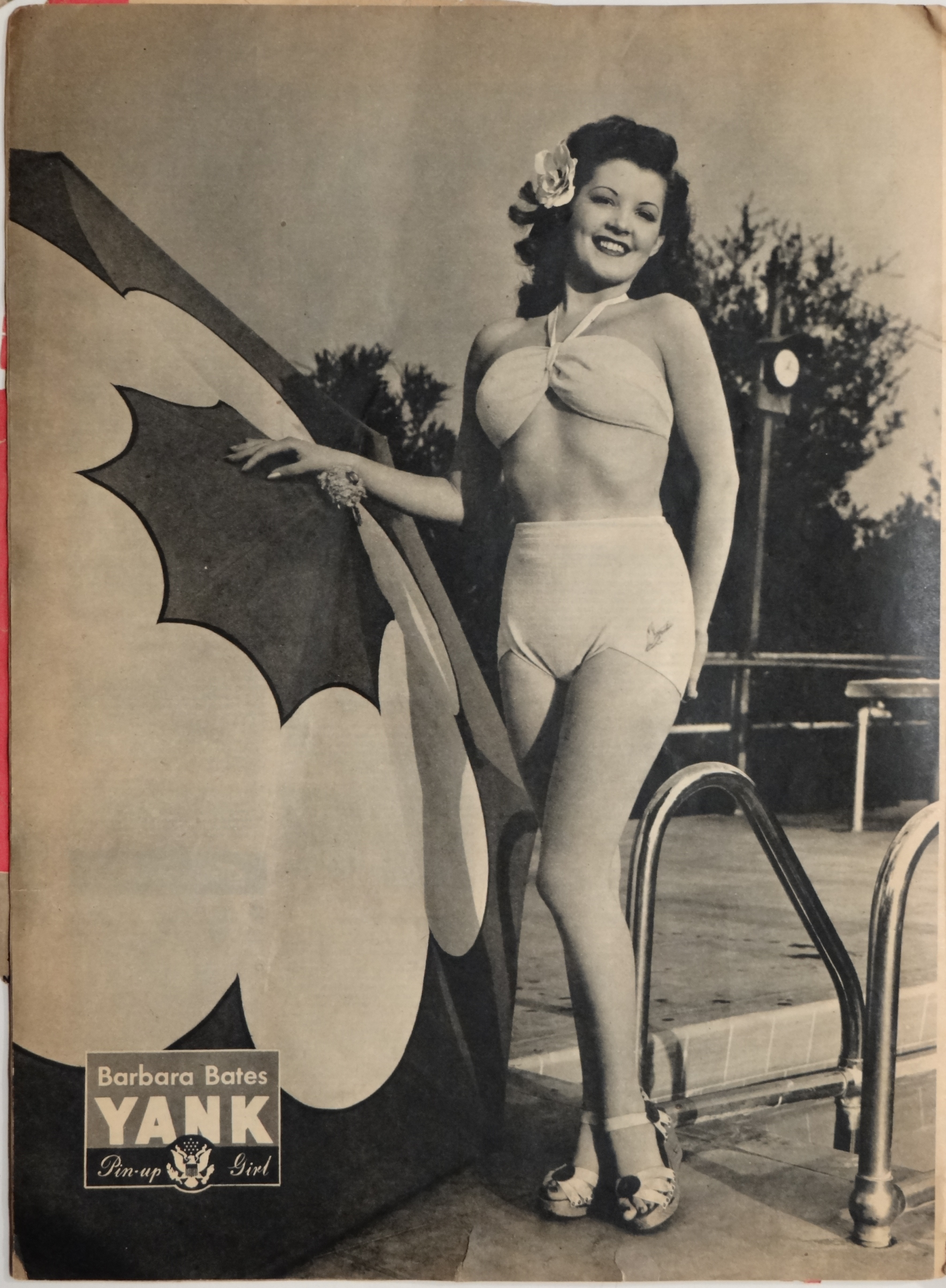 Barbara Bates pin-up from Yank, The Army Weekly, May 4, 1945